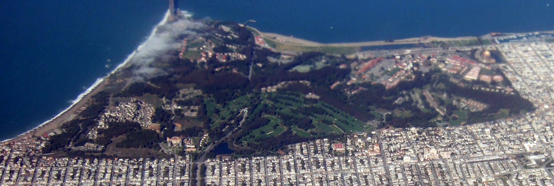 Aerial photograph of the Presidio of San Francisco.